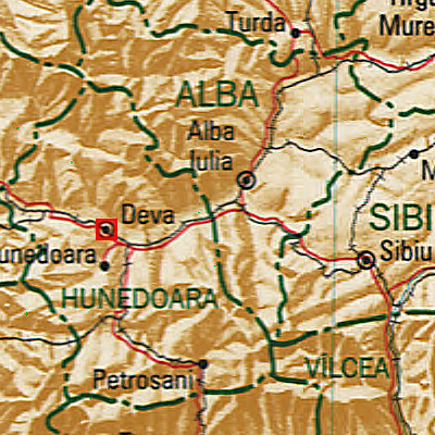 Map of Deva Municipality, Romania.